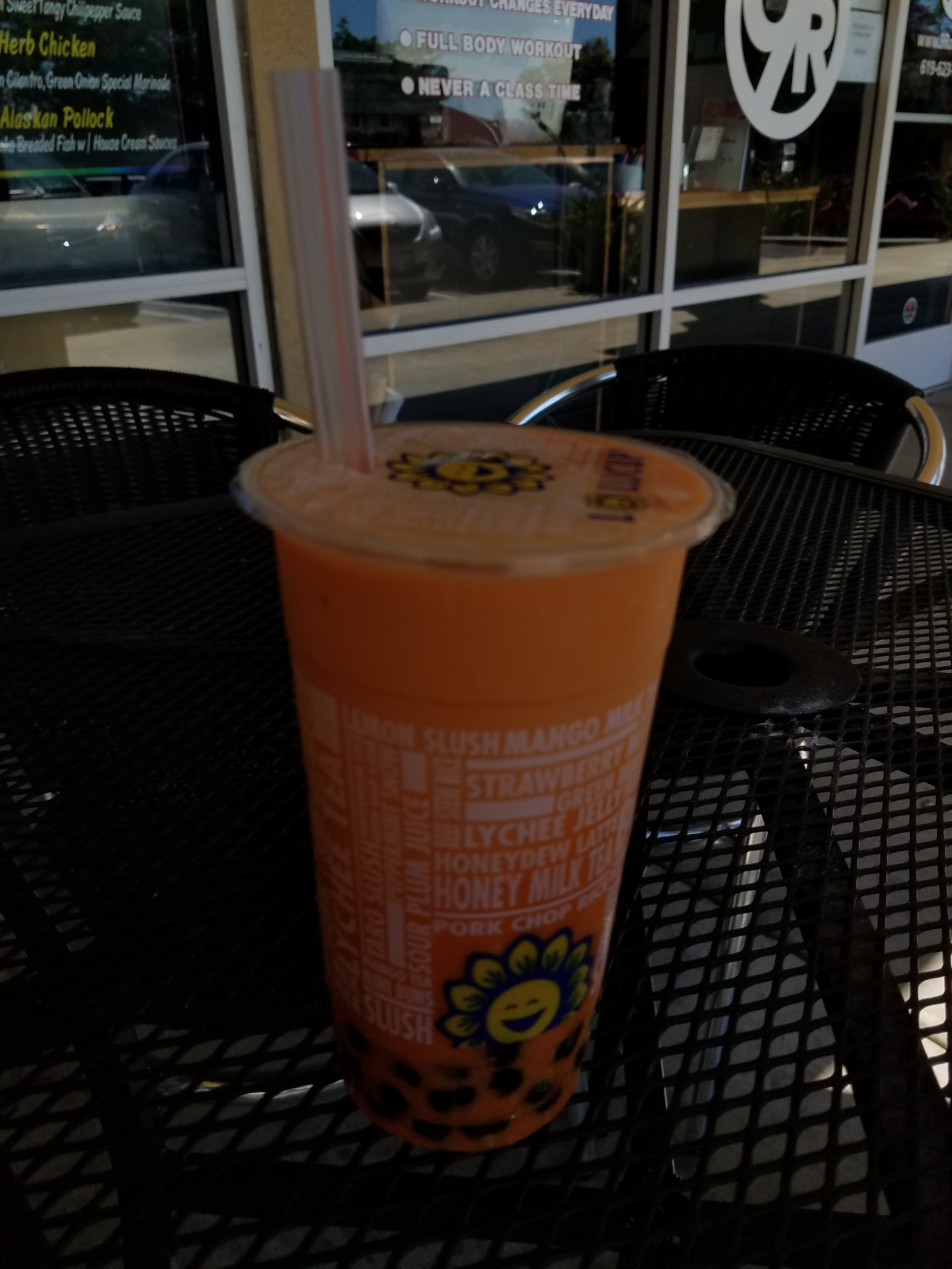 Thai ice tea with boba